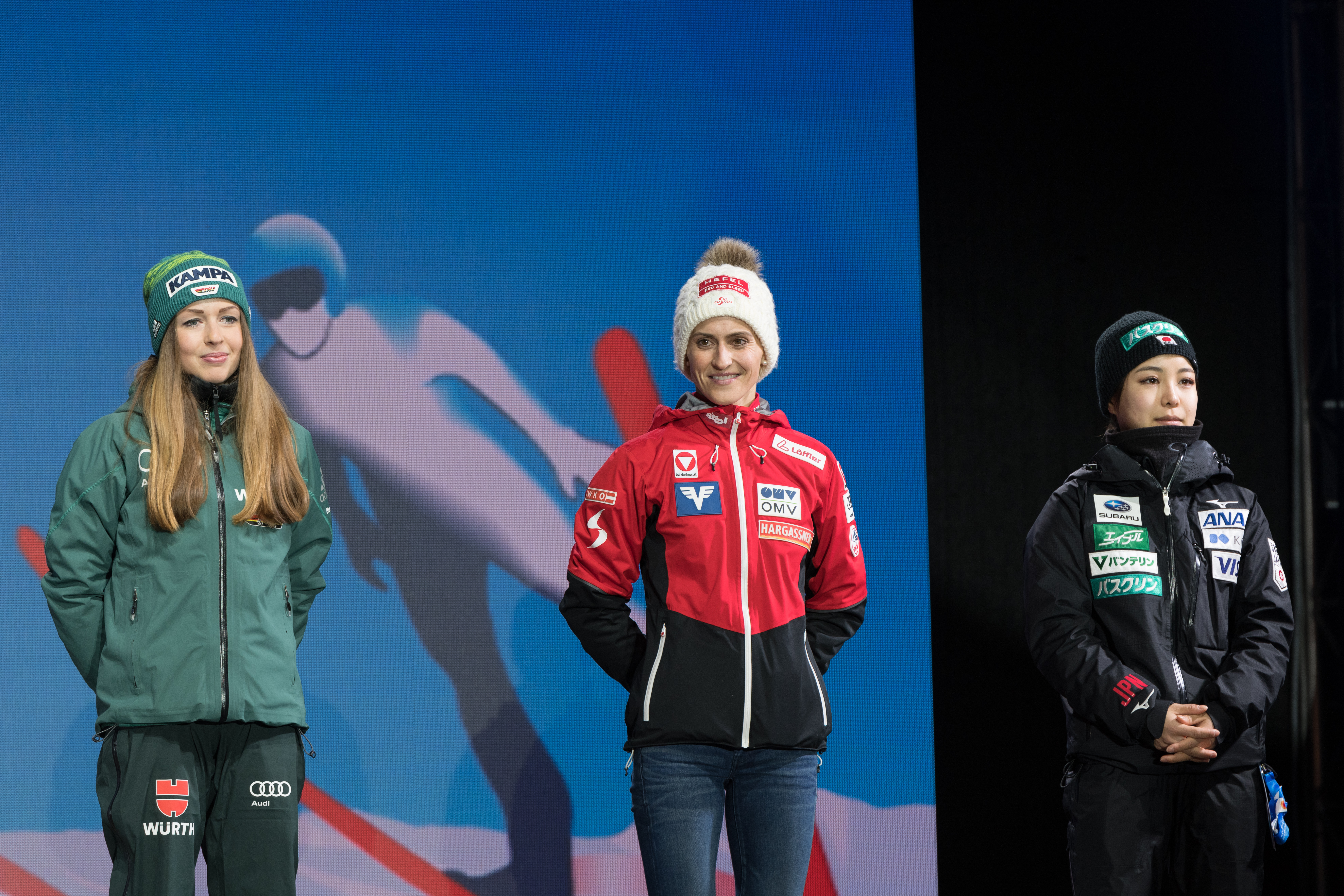 FIS Nordic World Ski Championships Seefeld 2019 - Medal Ceremony at the Medal Plaza. Picture shows Juliane Seyfarth (GER), Eva Pinkelnig (AUT), Sara Takanashi (JPN).